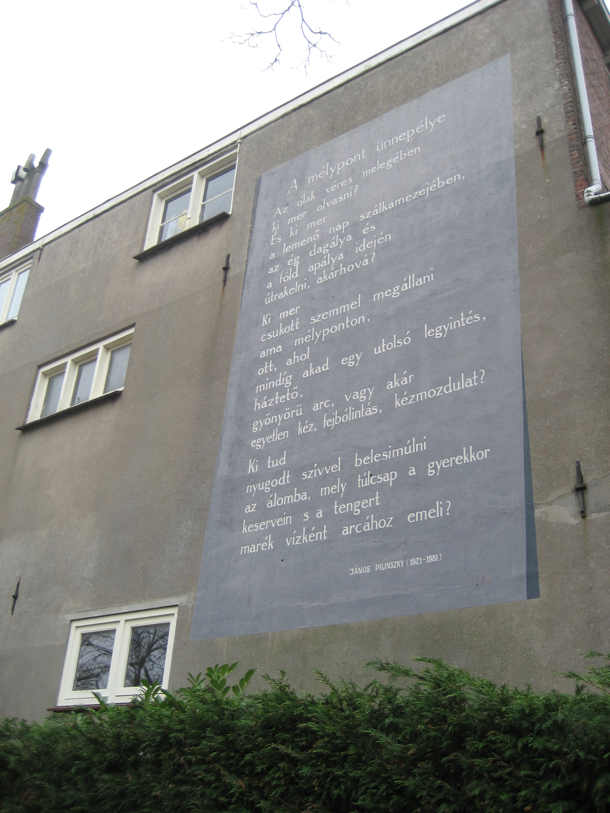 János Pilinszky: A mélypont ünnepélye (Feest van het dieptepunt) Poem on a wall in Leiden (corner Lijsterstraat and Rijnsburgerweg)